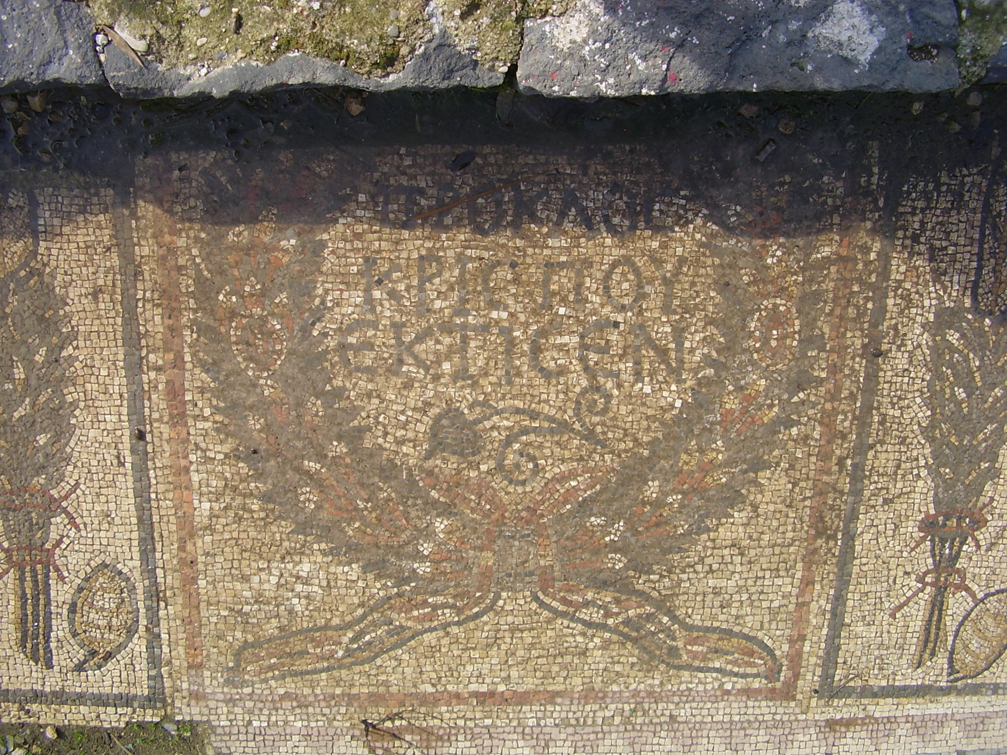 Tiberias archeological gaeden